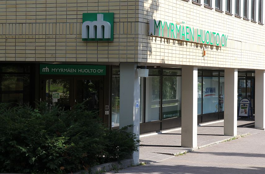 Myyrmäen huollon toimistoa Louhelassa. Myyrmäen huolto on erityisesti Länsi-Vantaalla, Myyrmäen suuralueella toimiva kiinteistöhuolto- ja isännöintiyritys. Huom: Muista säilyttää viittaus kuvaajaan, mikäli käytät kuvaa.